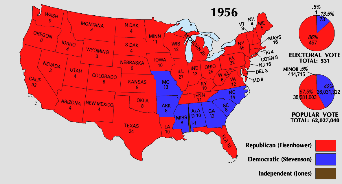 1956 Electoral College Map